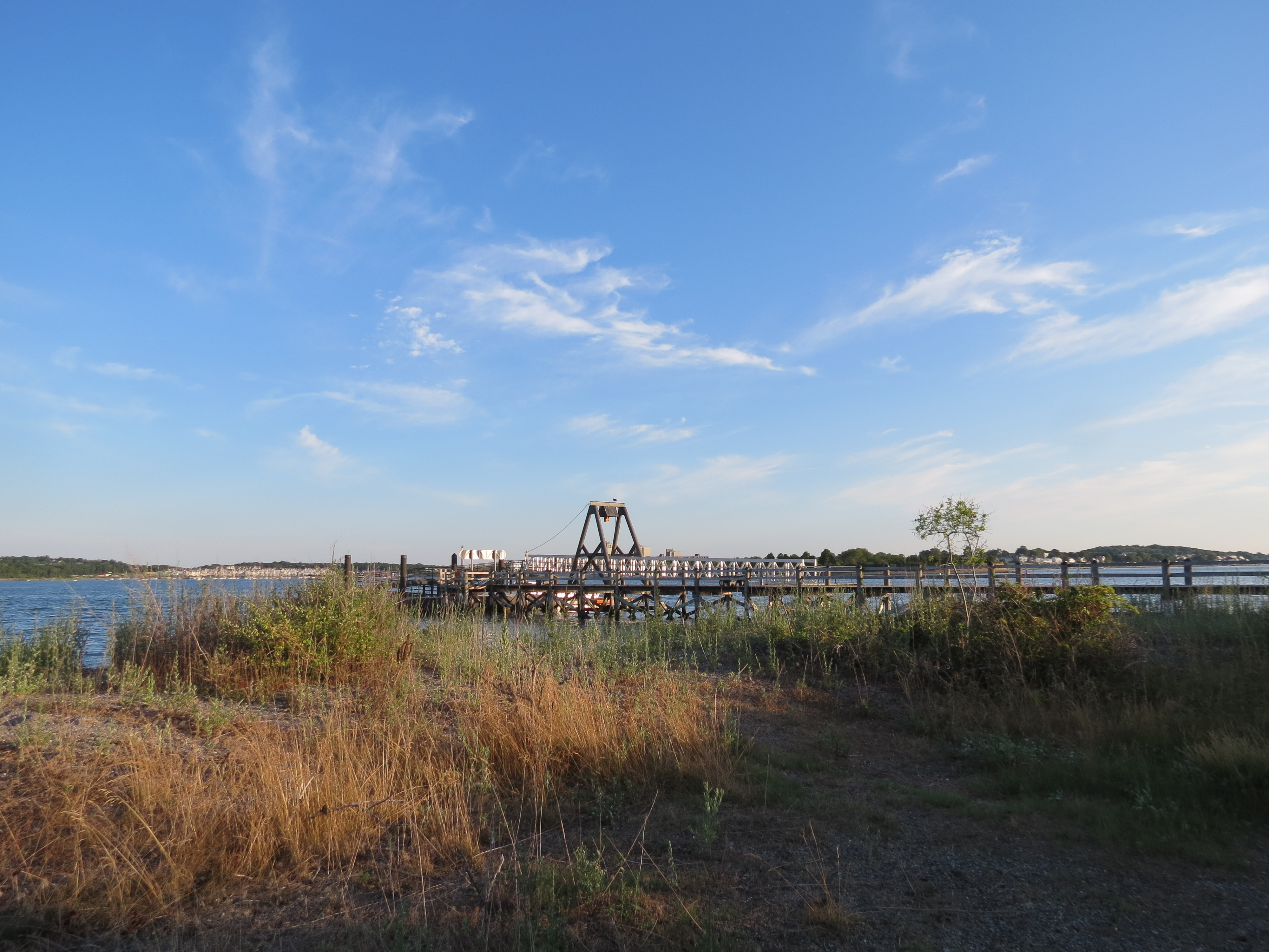 Grape Island in the morning